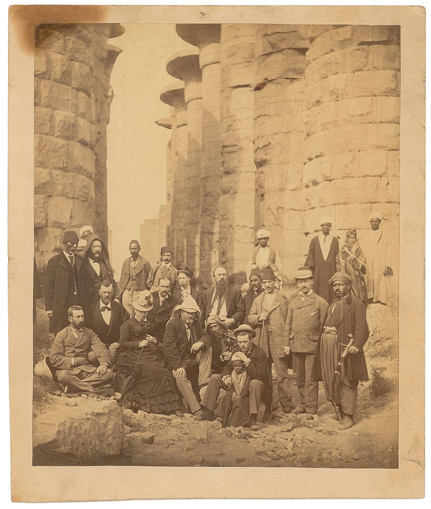 Original and large unsigned albumen photo, 9.5 x 11.5, affixed to a 10.75 x 13 mount, portraying U. S. Grant, his wife Julia, and his two sons Frederick and Jesse, posing alongside their guides and porters at the Karnak Temple Complex near the ancient city of Thebes, taken circa late January 1878. In fine condition, with a few light dings and corner tip bends to image, an area of toning to top left affecting just the corner tip of the image, and some dings and soiling to mount. In the March 4, 1878, issue of the New York Herald, John Russell Young, a correspondent who accompanied Grant during his tour wrote, in part: ‘We gathered under the shade of a column, and, having carpeted a broken column for Mrs. Grant, sat around her and refreshed ourselves out of a basket…The General wears his pith helmet, swathed in silk, and you just catch a glimpse of the eyes and all the force of his brave, kind, strong face. Mrs. Grant sits near him, shrinking from the sun.’ Grant’s world tour began shortly after leaving the White House and spanned over two-and-a-half years, with stops in England, Germany, China, India, Italy, and Egypt.